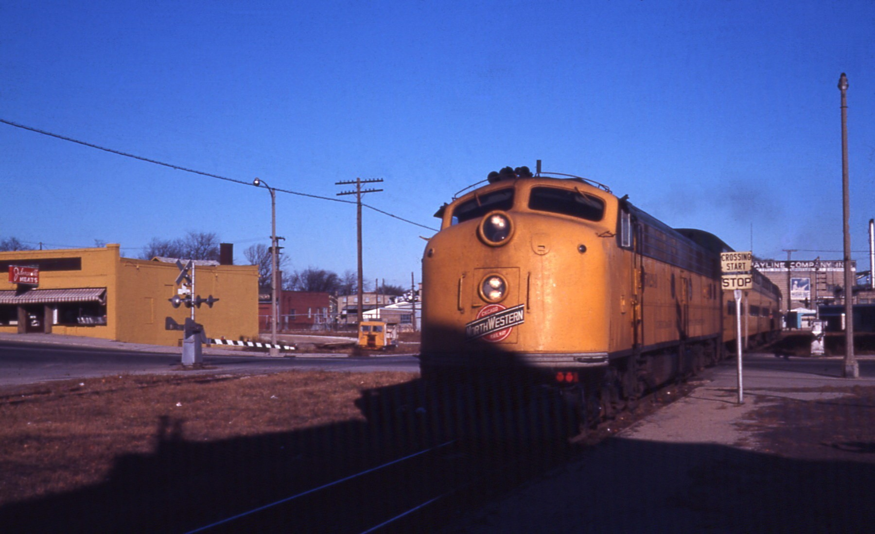 The Peninsula 400 at Sheboygan, Wisconsin on Saturday, November 23, 1968. This is identified as the Peninsula 400 based on the following criteria: The photographer is looking north from the CNW depot at the Pennsylvania Avenue crossing The shadows from the depot establish this as a brisk fall morning The train is traveling south Per the spring 1968 timetable the CNW had one daily and one weekend train to Sheboygan The only train scheduled to be in Sheboygan in the morning is the southbound Peninsula 400